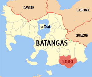 Map of Batangas showing the location of Lobo